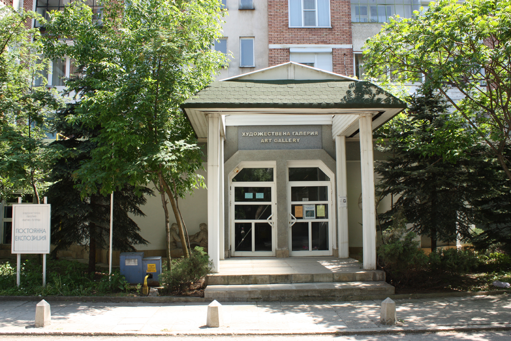 Montana Art Gallery, Bulgaria